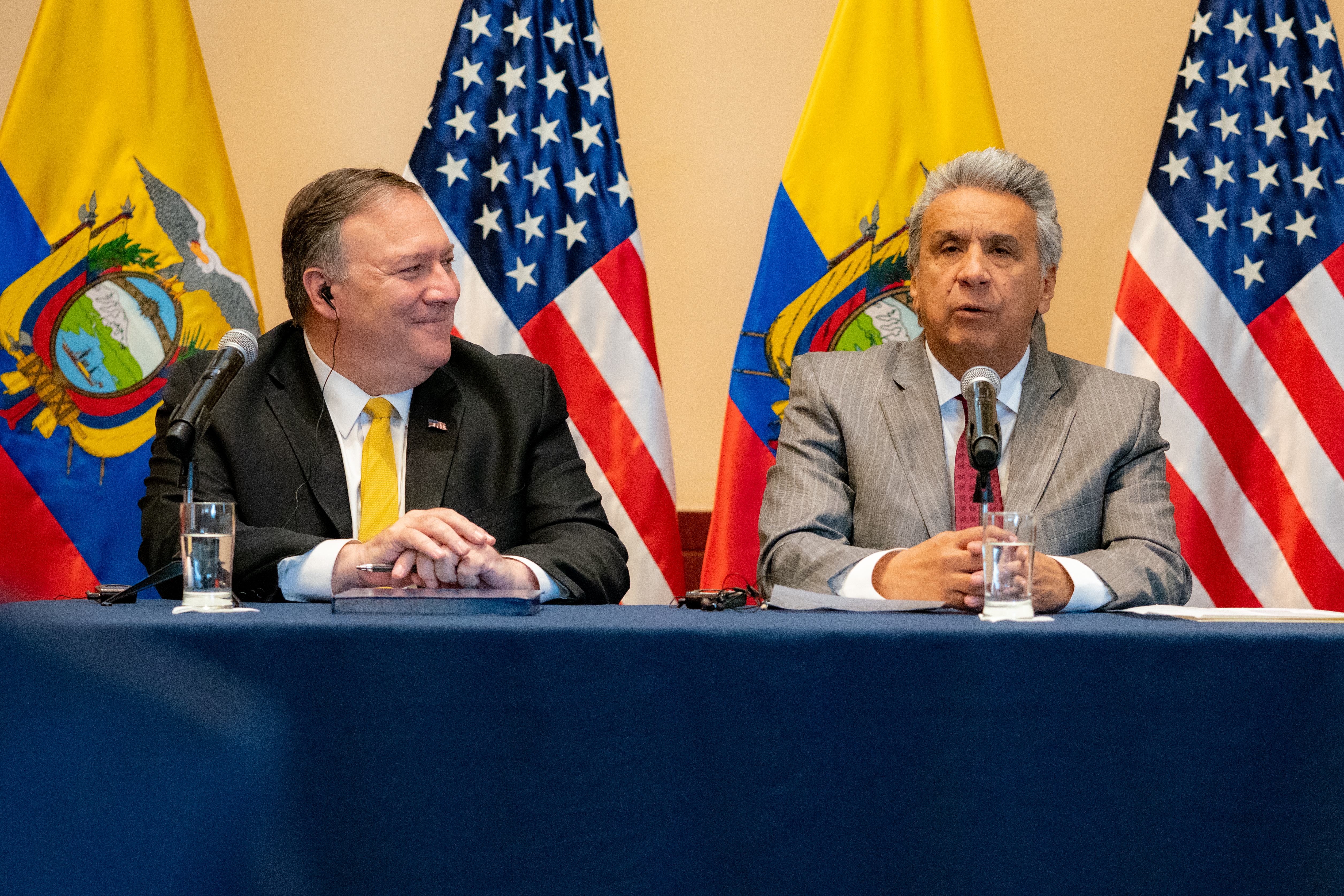 U.S. Secretary of State Michael R. Pompeo holds a joint press conference with Ecuadorian President Lenin Moreno, in Guayaquil, Ecuador, July 20, 2019. [State Department photo by Ron Przysucha/ Public Domain]